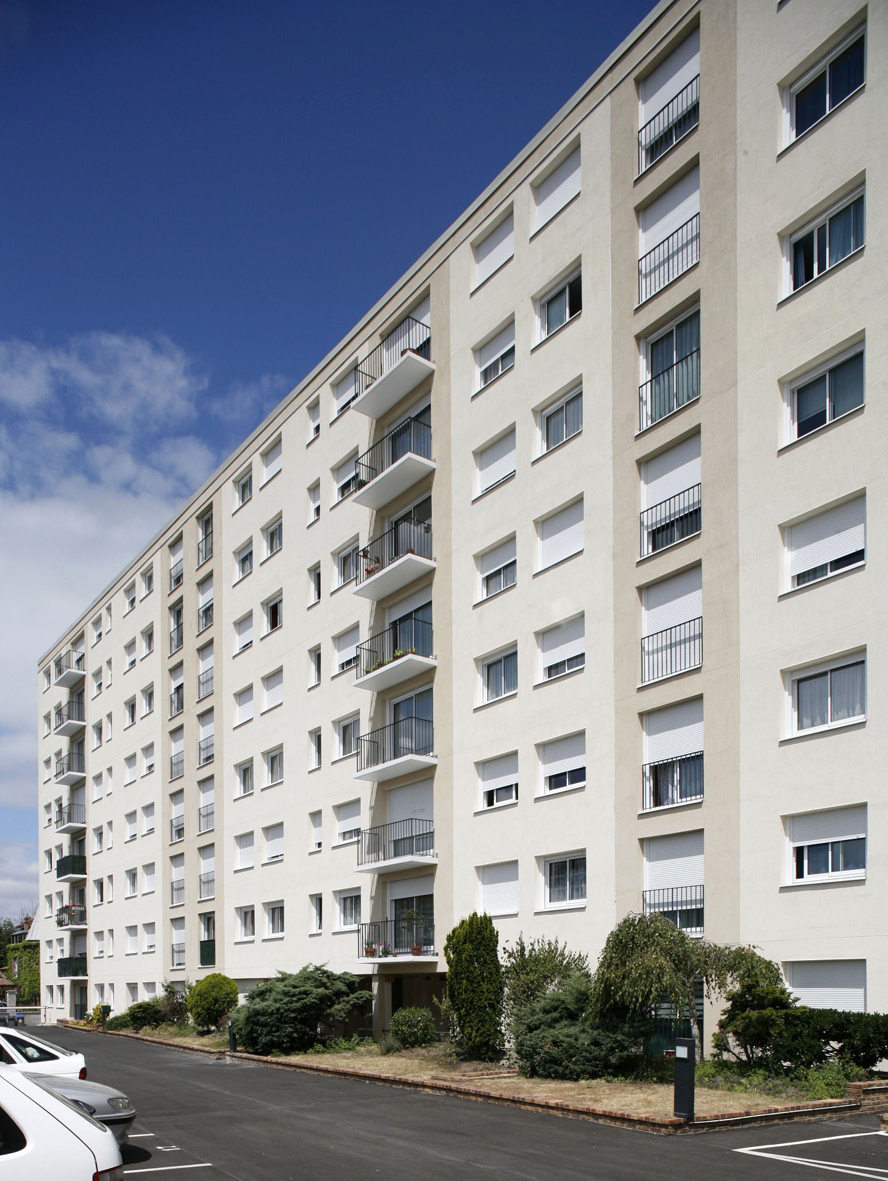 Rénovation de logements sociaux en isolation thermique par l’extérieur, banlieue parisenne